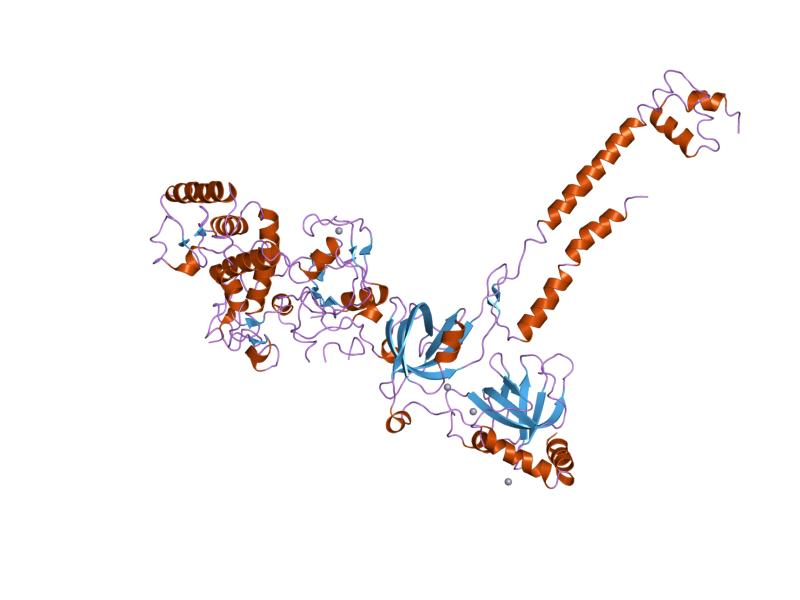 Cartoon representation of the molecular structure of protein registered with 1miu code.